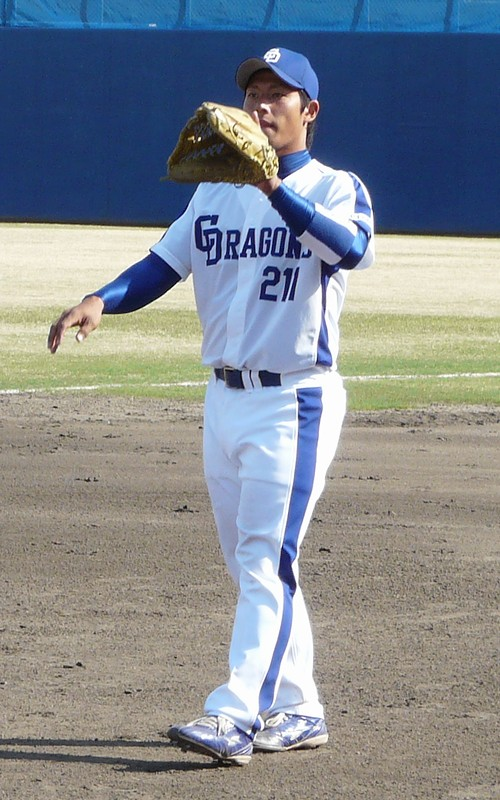 Takaya Kobayashi